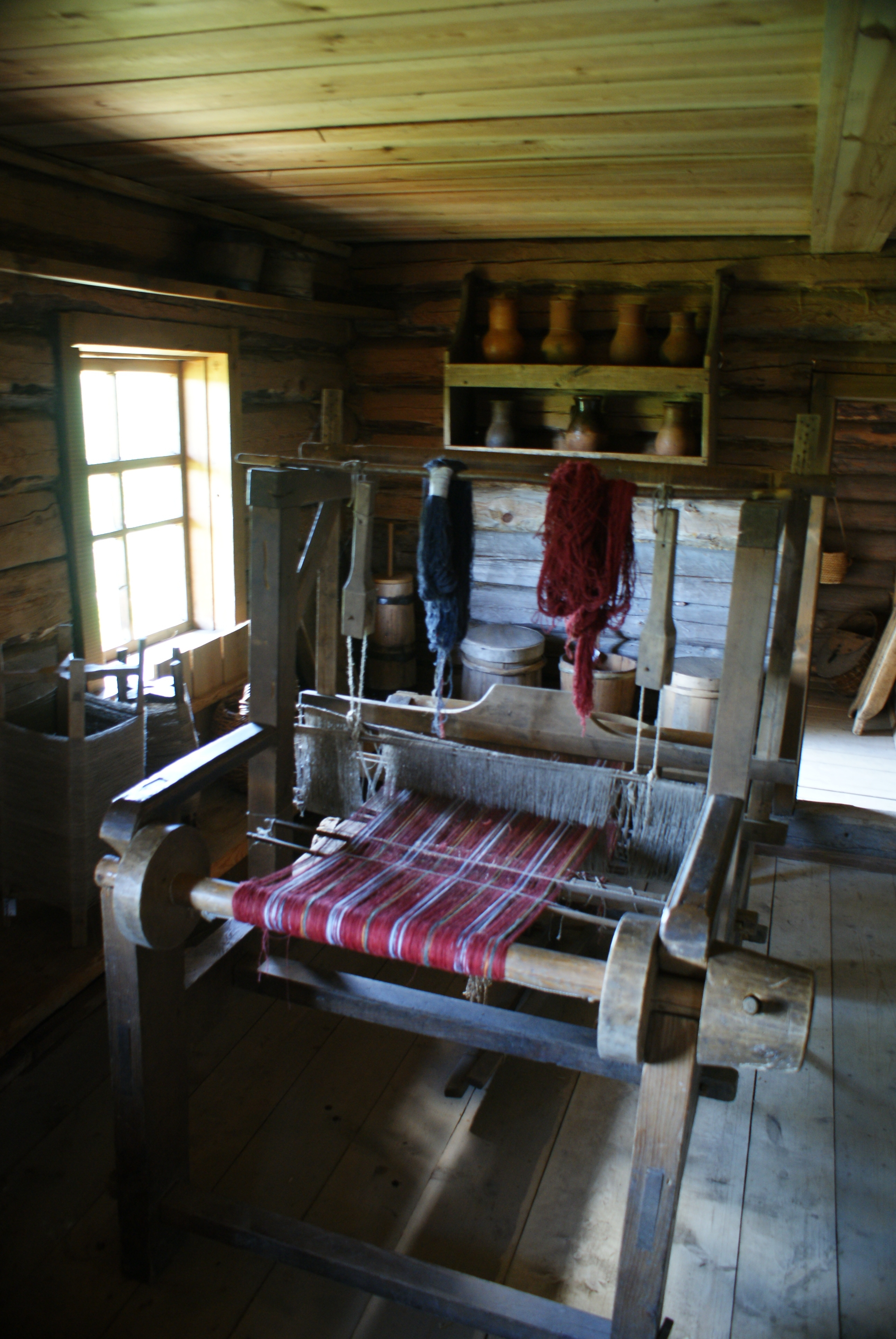 Loom in State museum of folk architecture and life, Belarus